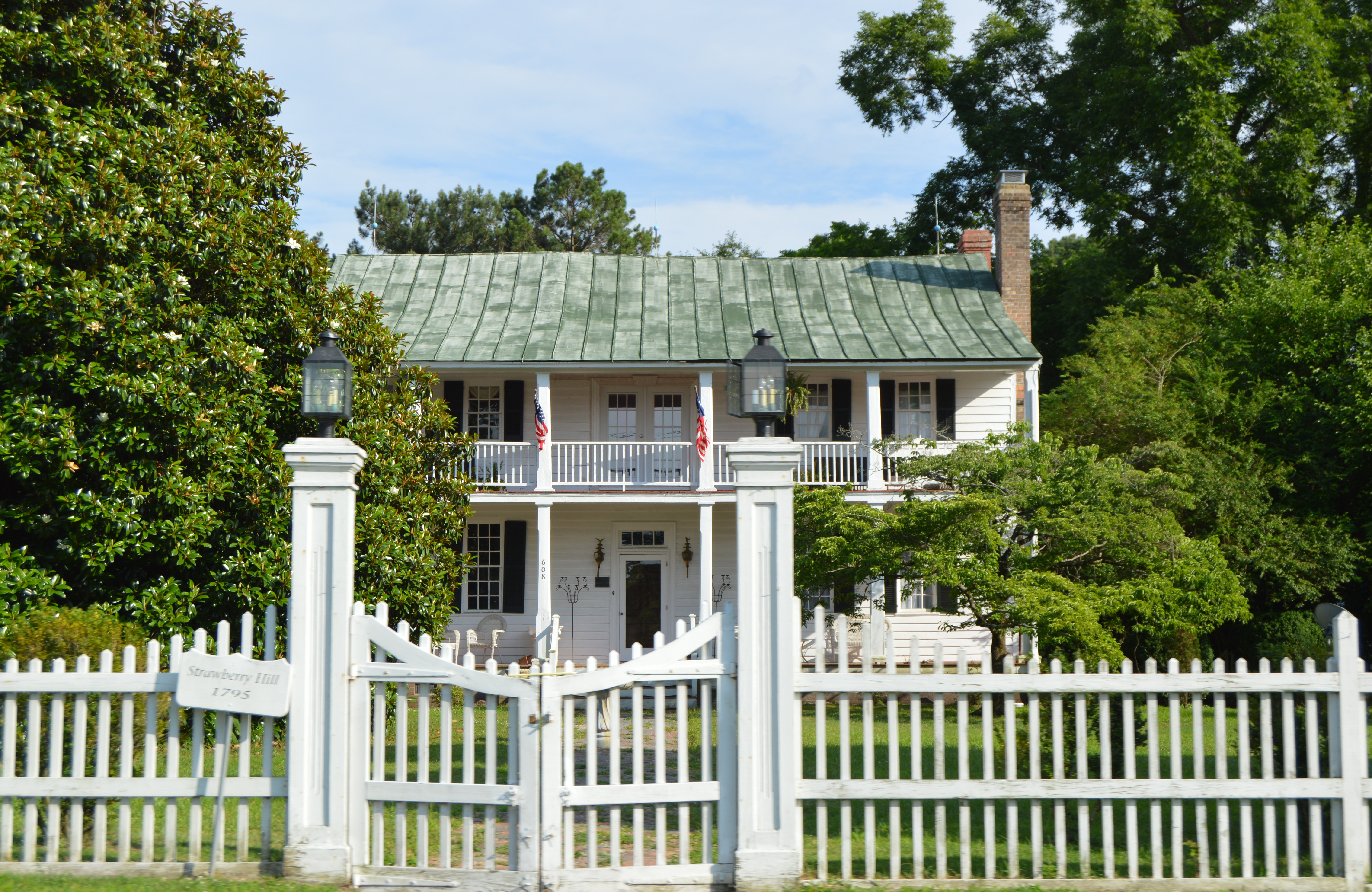 Front of Strawberry Hill, located on Church Street (North Carolina Highway 32) near Coke Avenue in Edenton, North Carolina, United States. Built in 1795, it is listed on the National Register of Historic Places.